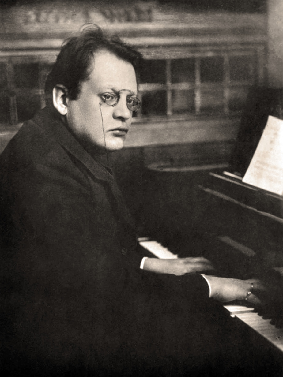 Carte de Visite of Max Reger playing piano published by Hermann Leiser in Berlin